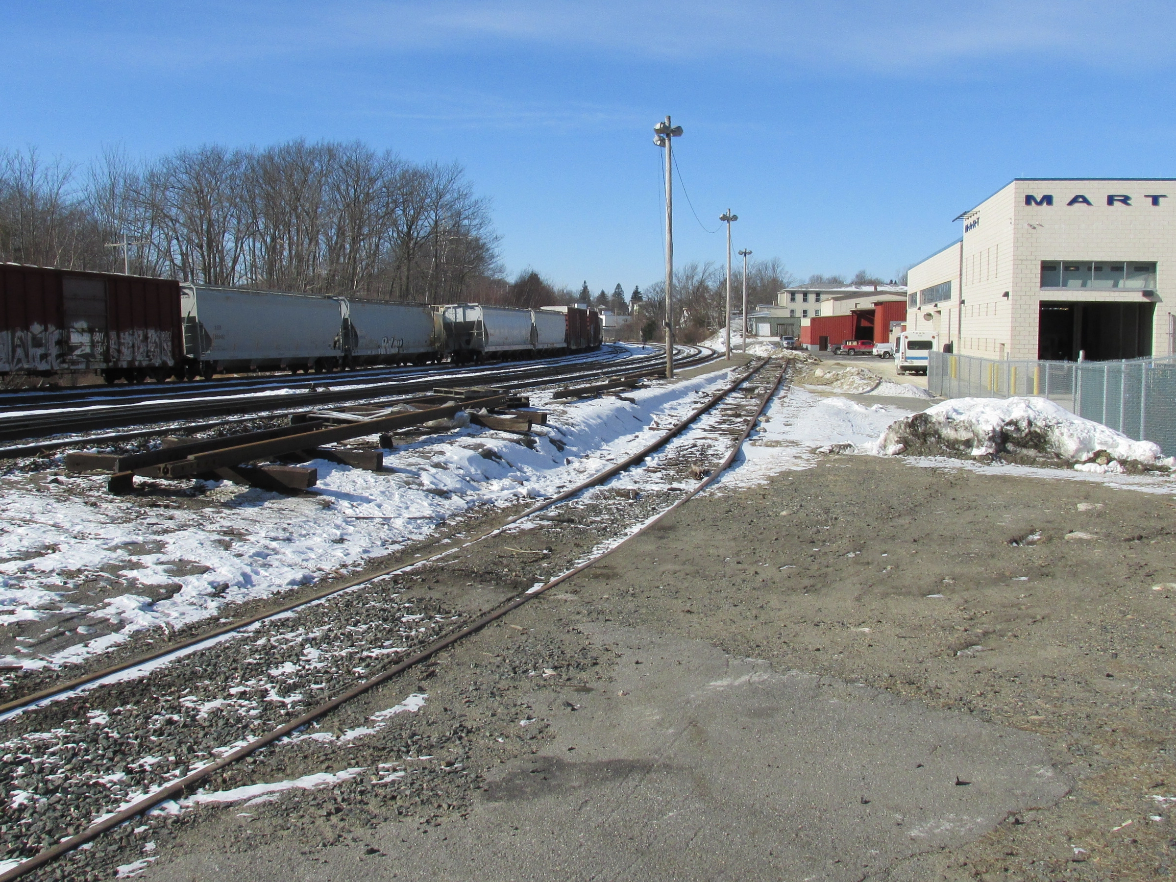 Behind the Main Street MART, Gardner Massachusettsview of the 1980's Gardner MBTA platform (with the 3 light poles)